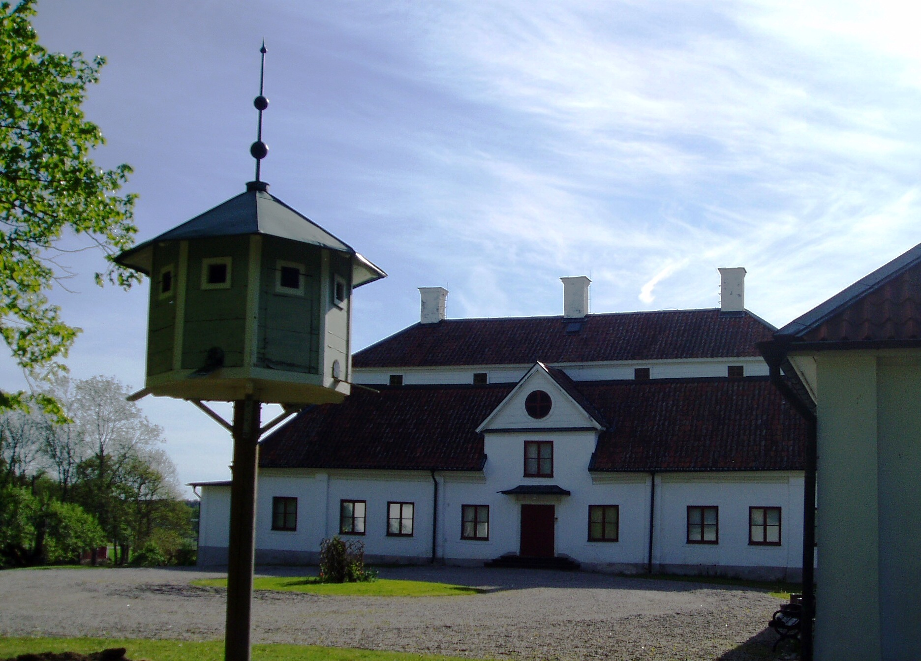 Lagesberg mansion, Eskilstuna, Sweden